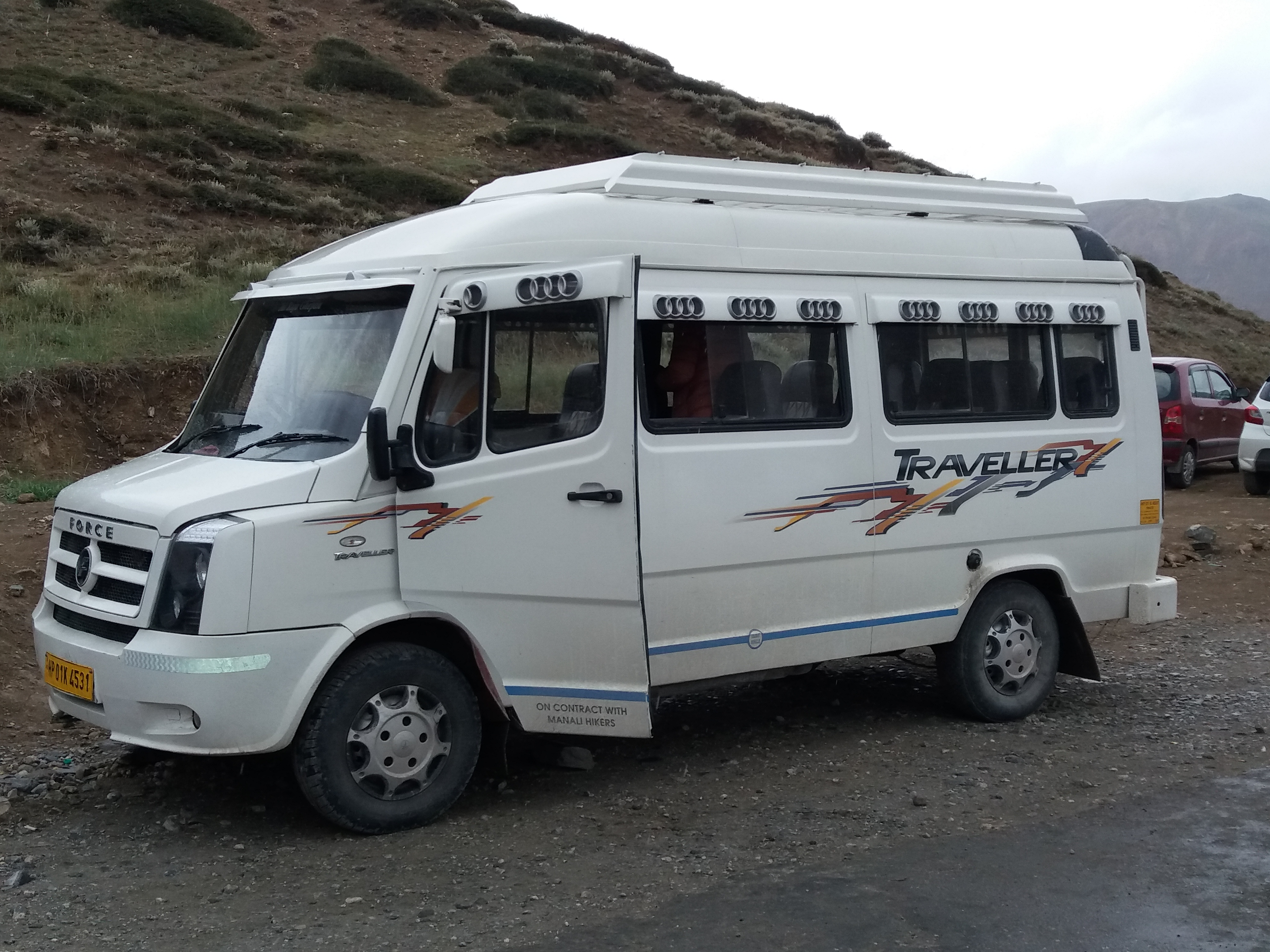 Force Traveller, Leh-Manali Highway.